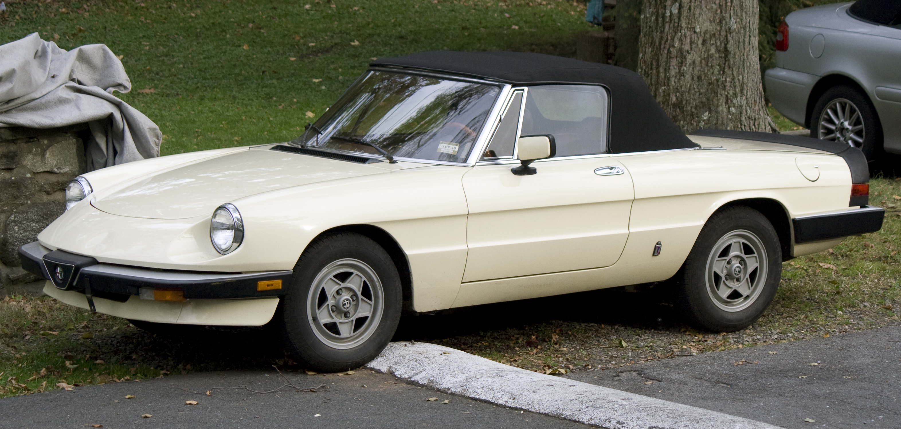 1984 Alfa Romeo Spider 2.0 Injection, US market version (who else would paint one beige?)